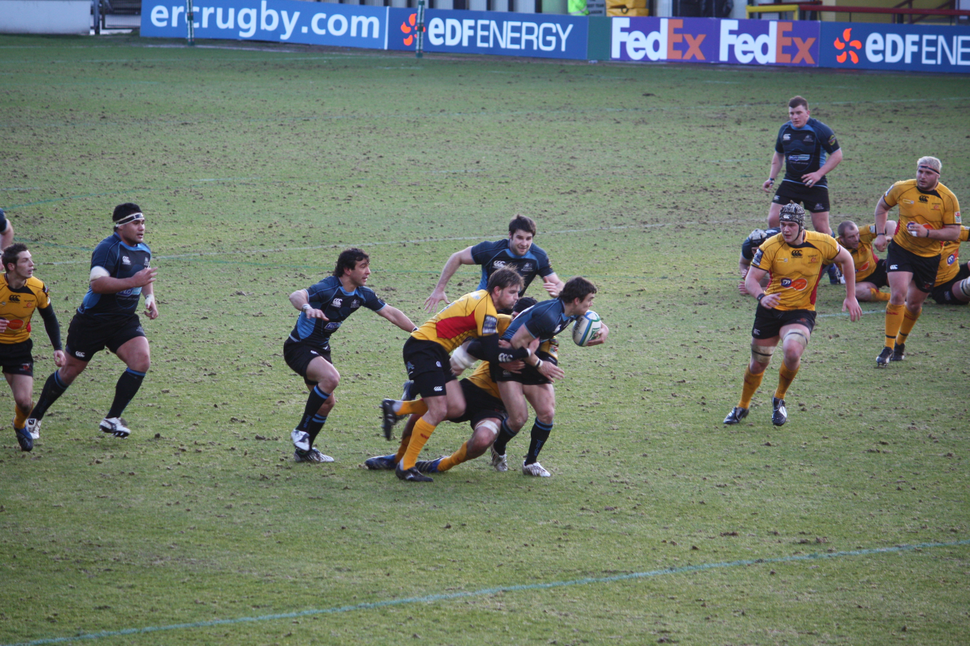 Max Evans At least, I think it is.